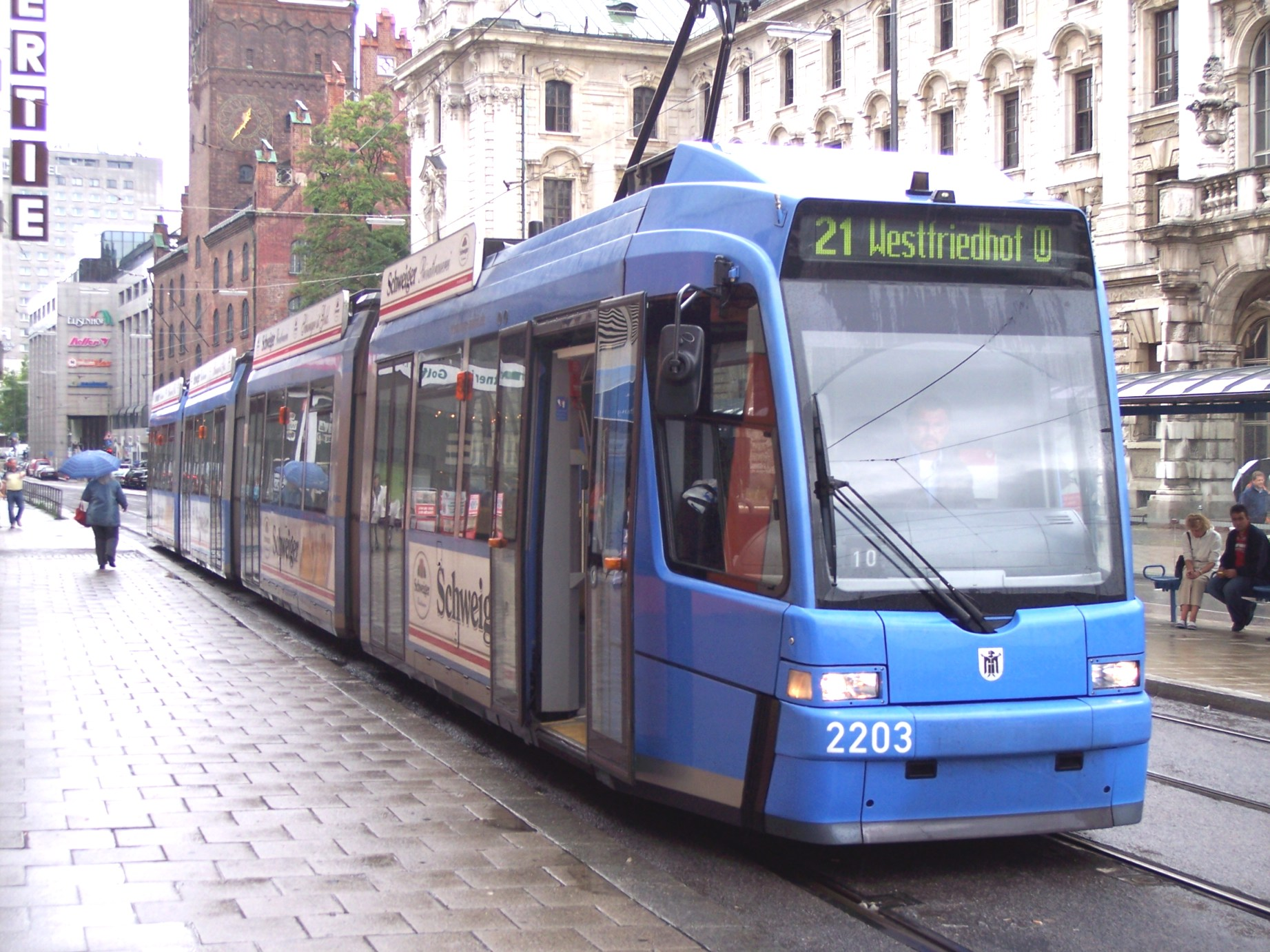 Munich tramcar Series 3.3